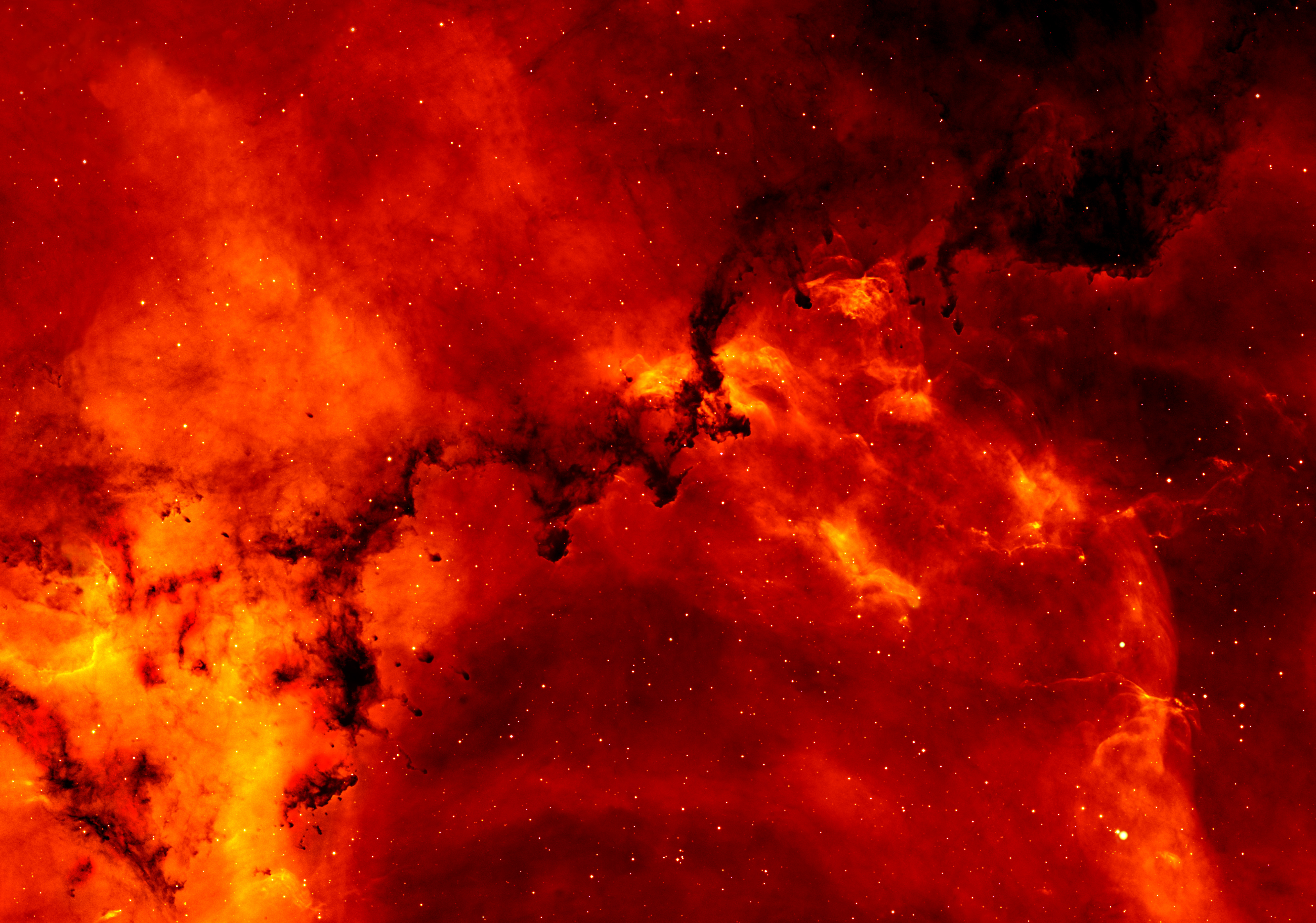 A close up view of the Rosette Nebula. The red color comes from Hydrogen.